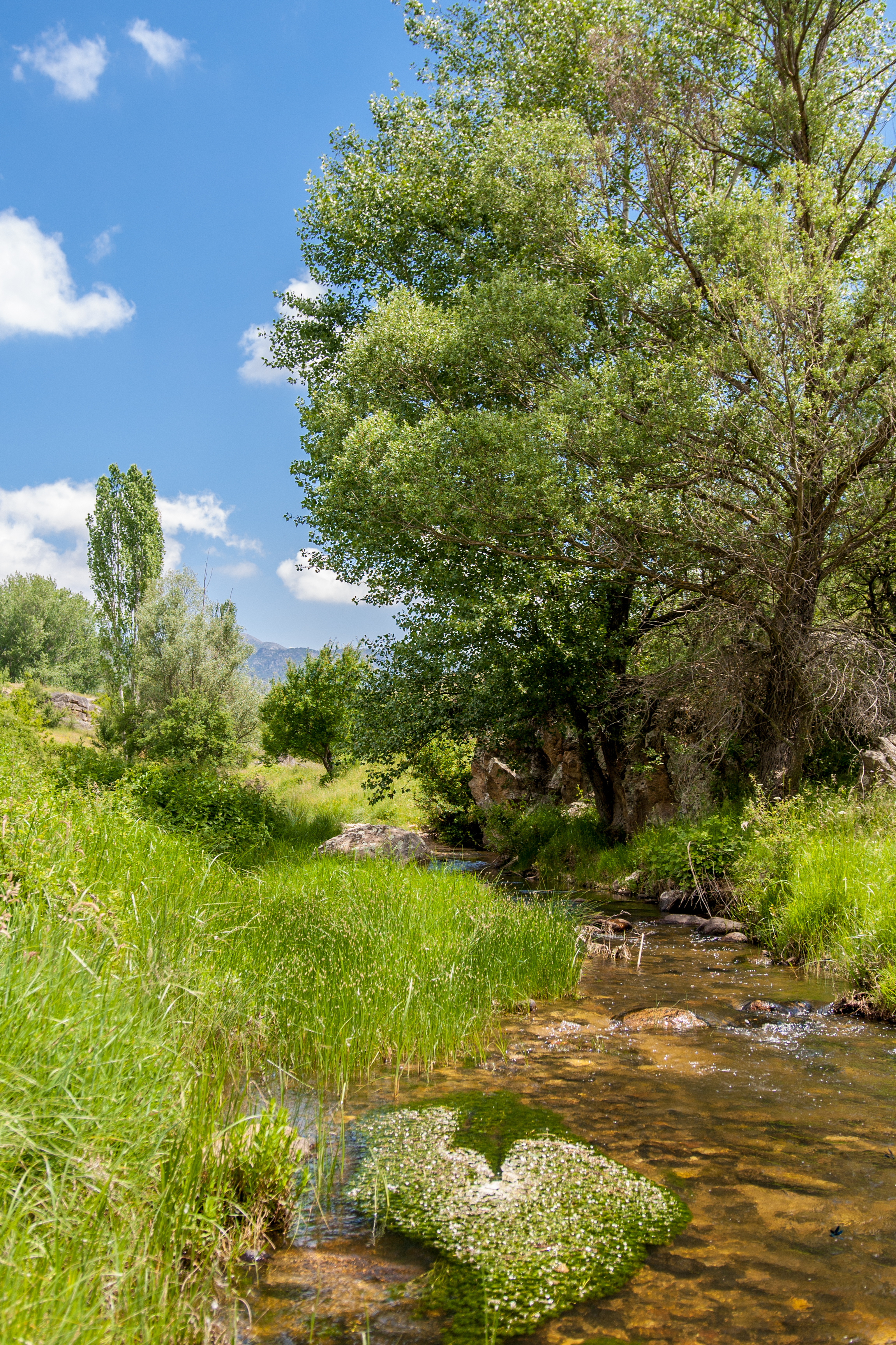 River near the village Dunje